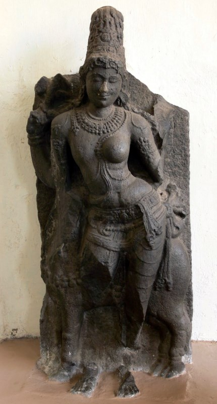 Ardhanari from UgraKaliAmman Koil 10th century, Nayak Palace Art Museum, Thanjavur. TN, INDIA